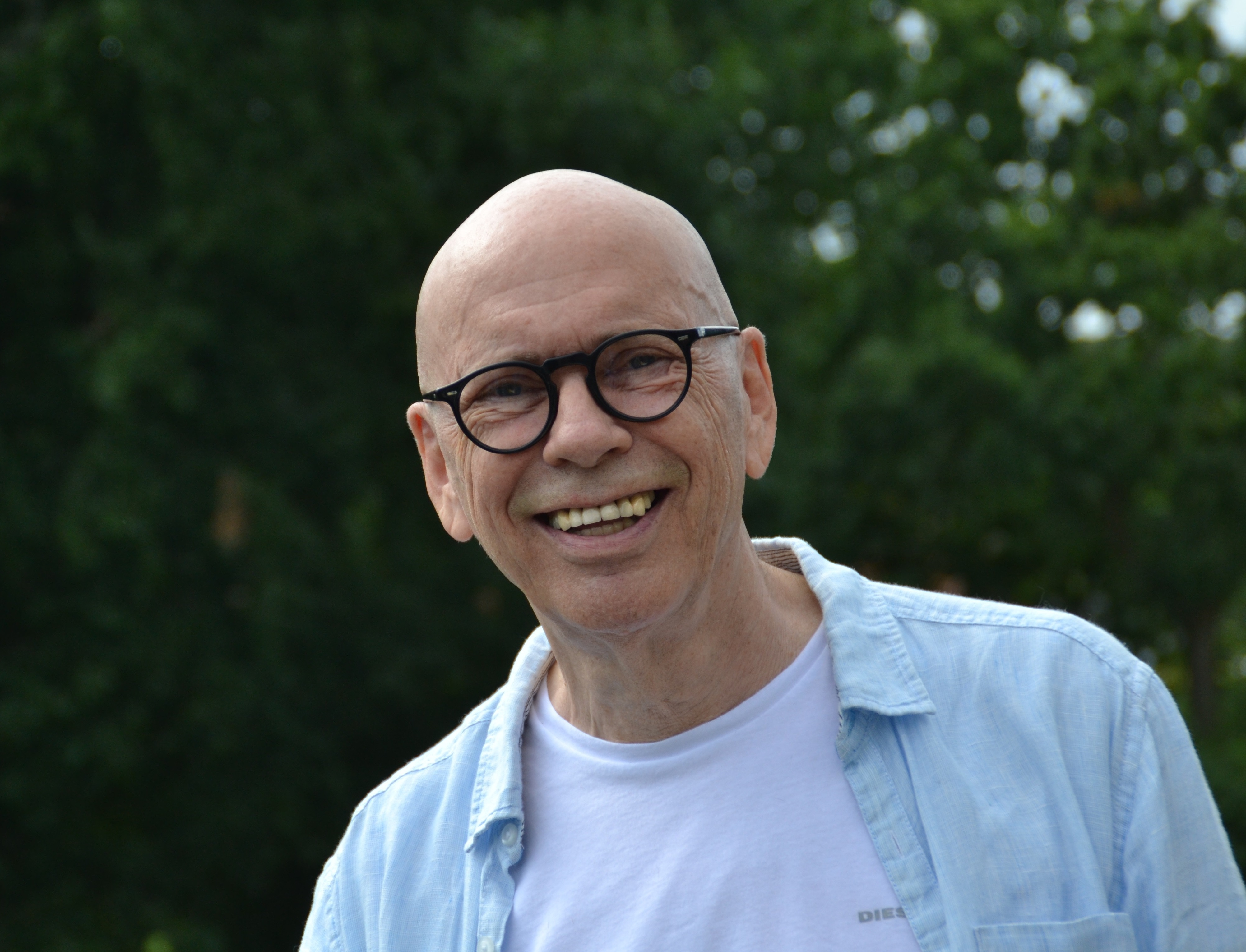 The Danish musician/drummer Bosse Hall Christensen. Member of the popular band Shu-bi-dua from 1973-1981.